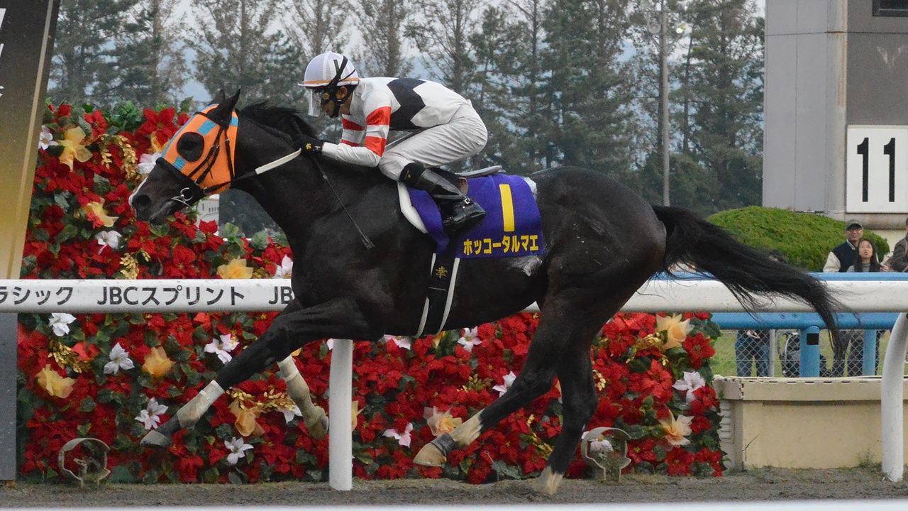 Japanese race horse Hokko Tarumae at Kanazawa racecourse. Kanazawa (JPN) 04 Nov 2013 JBC Classic (Local Grade 1) (Dirt) (3yo+) (1m2f110y) Sloppy RankHorse NameOddsAgeWgtTrainerJockey1stHokko Tarumae (JPN)2/5FC49-0Katsuichi NishiuraHideaki Miyuki2ndWonder Acute (JPN)31/10H79-0Masao SatoYutaka TakeOthers are omitted. (12 horses entered in a race.)